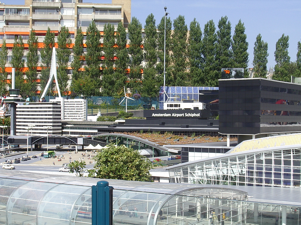 Amsterdam Schiphol Airport in Madurodam